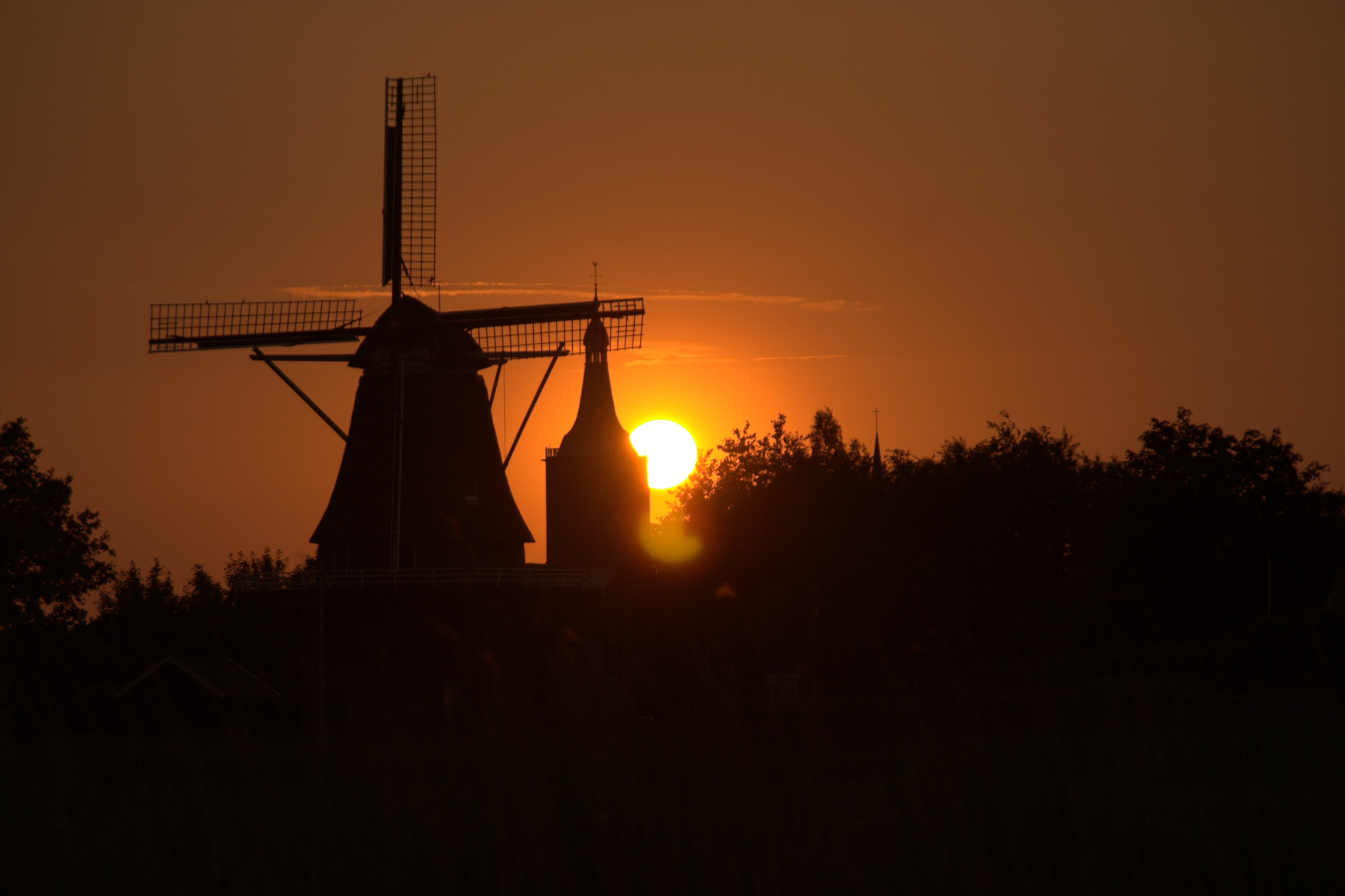 De Zwaluw bij zonsondergang